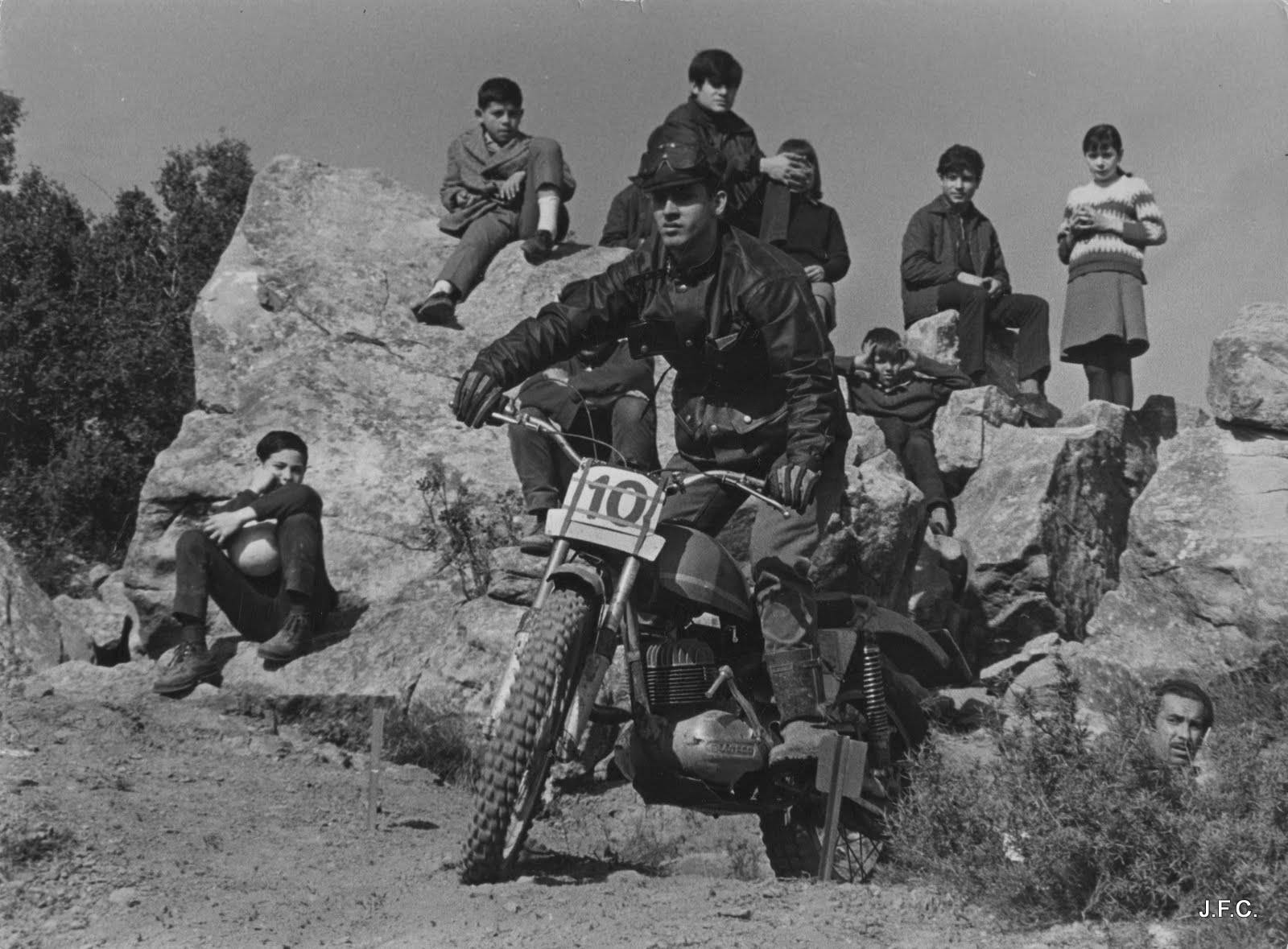 Joan Font on his Bultaco Sherpa T (5 speeds), entering a Non-Stop section at the 1968 Trial de Reis, near from Barcelona (Catalonia)